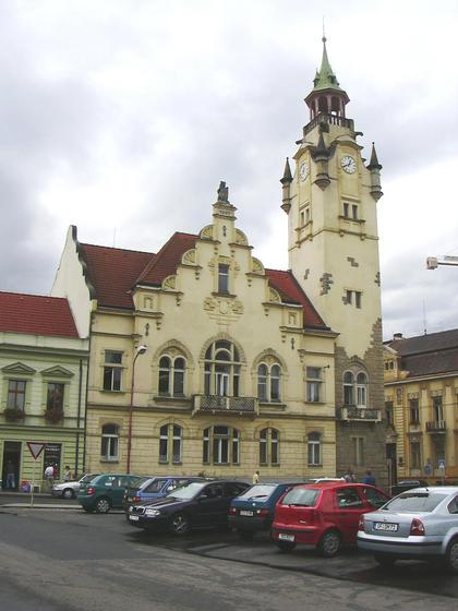 The tower in the town of Lovosice.